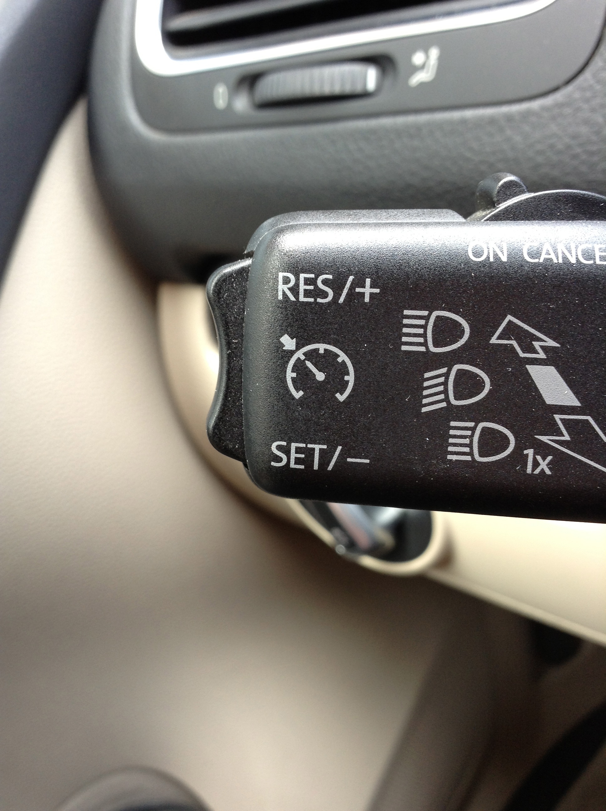 The cruise control switch of Volkswagen Golf Mk6